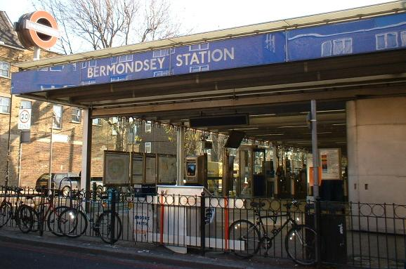 Bermondsey tube station.